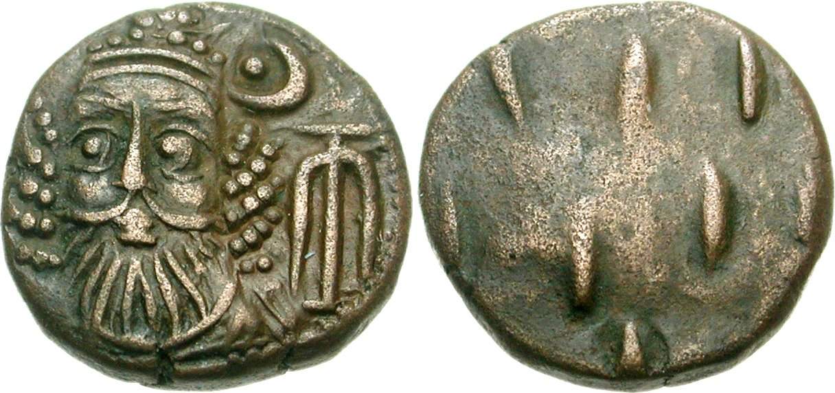 Coin of the king Kamnaskires-Orodes from Elymais